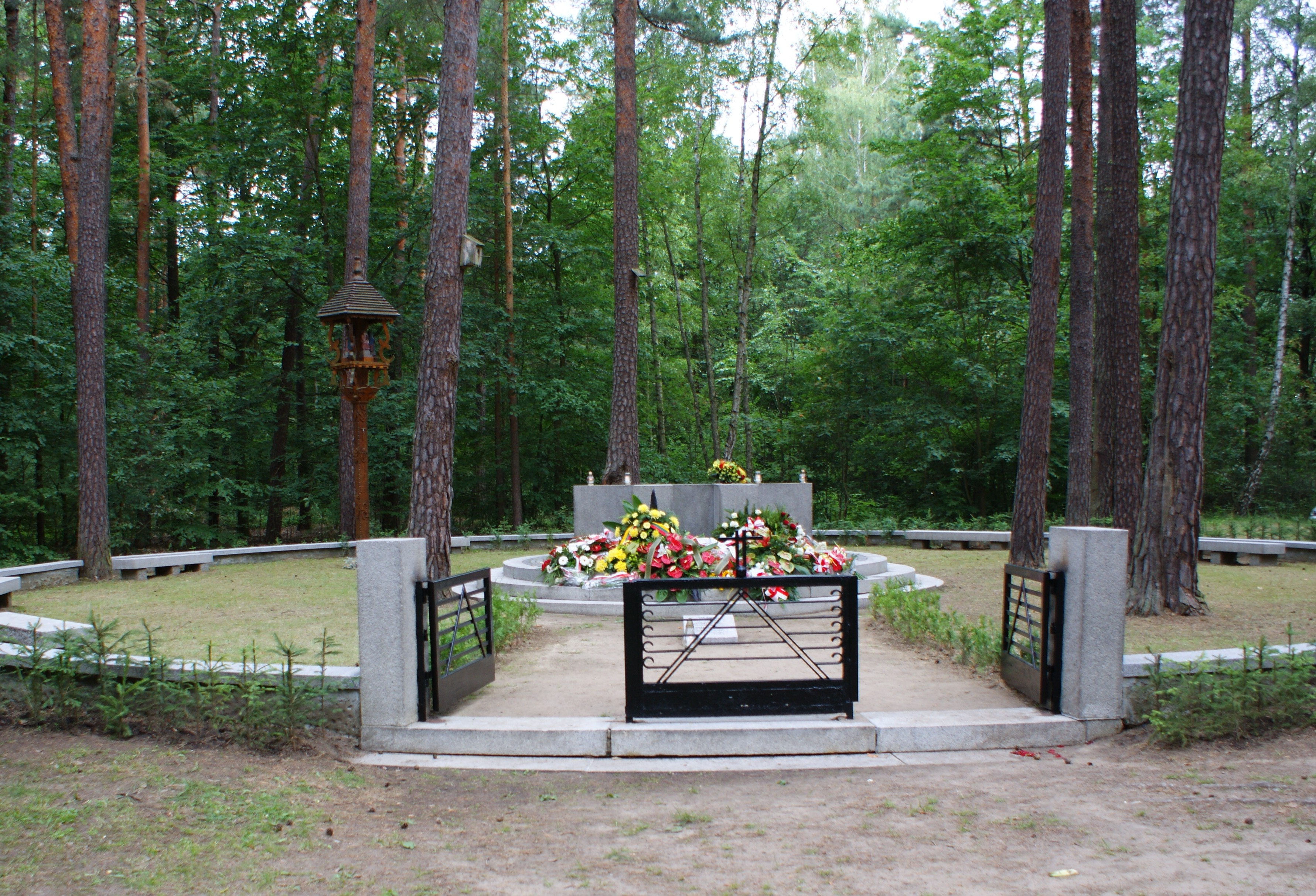 Monument marking the crash site of Lithuanian transatlantic flayers in Pszczelnik, NW Poland